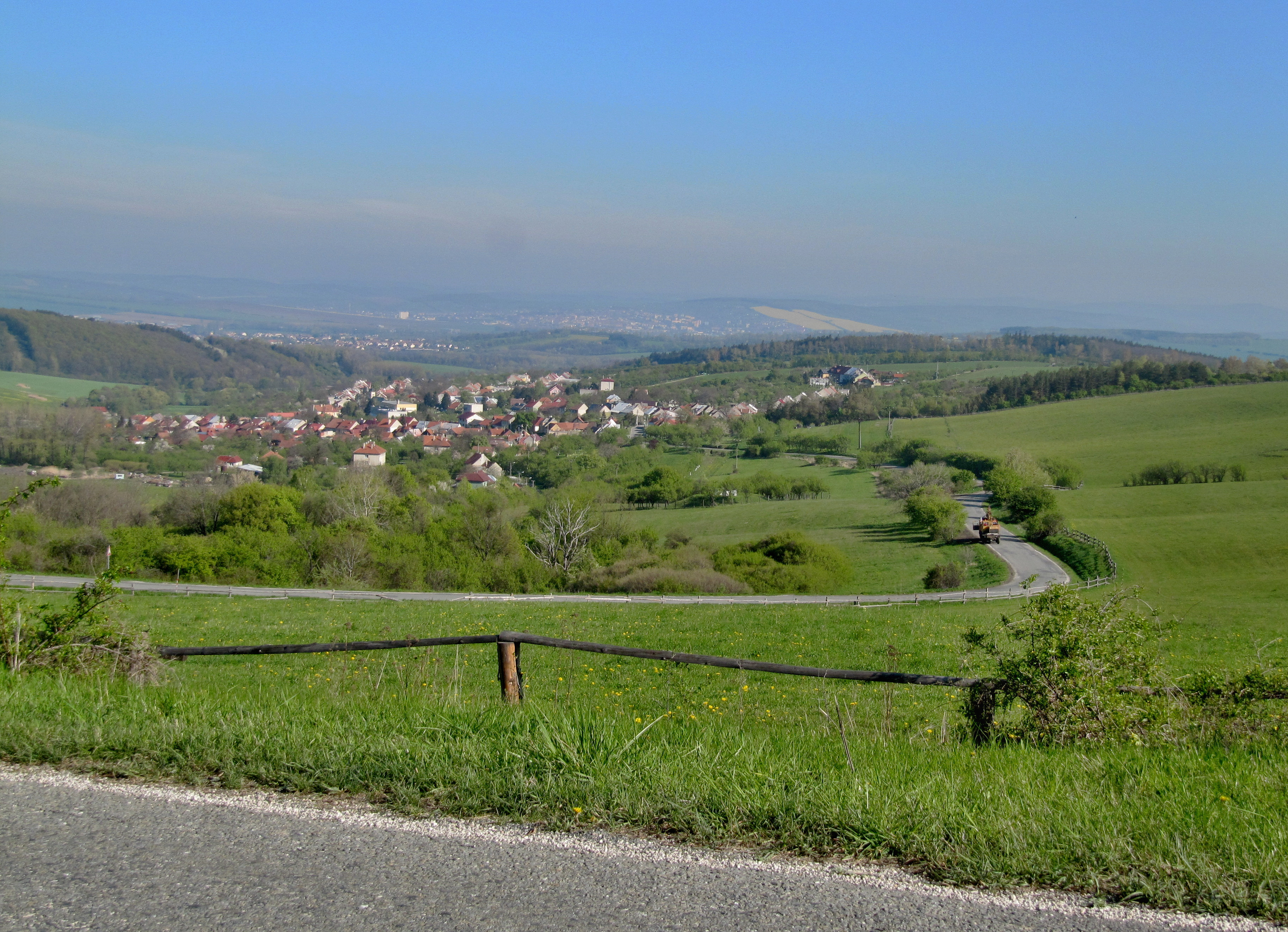 Korytná, Uherské Hradiště District, Czech Republic.